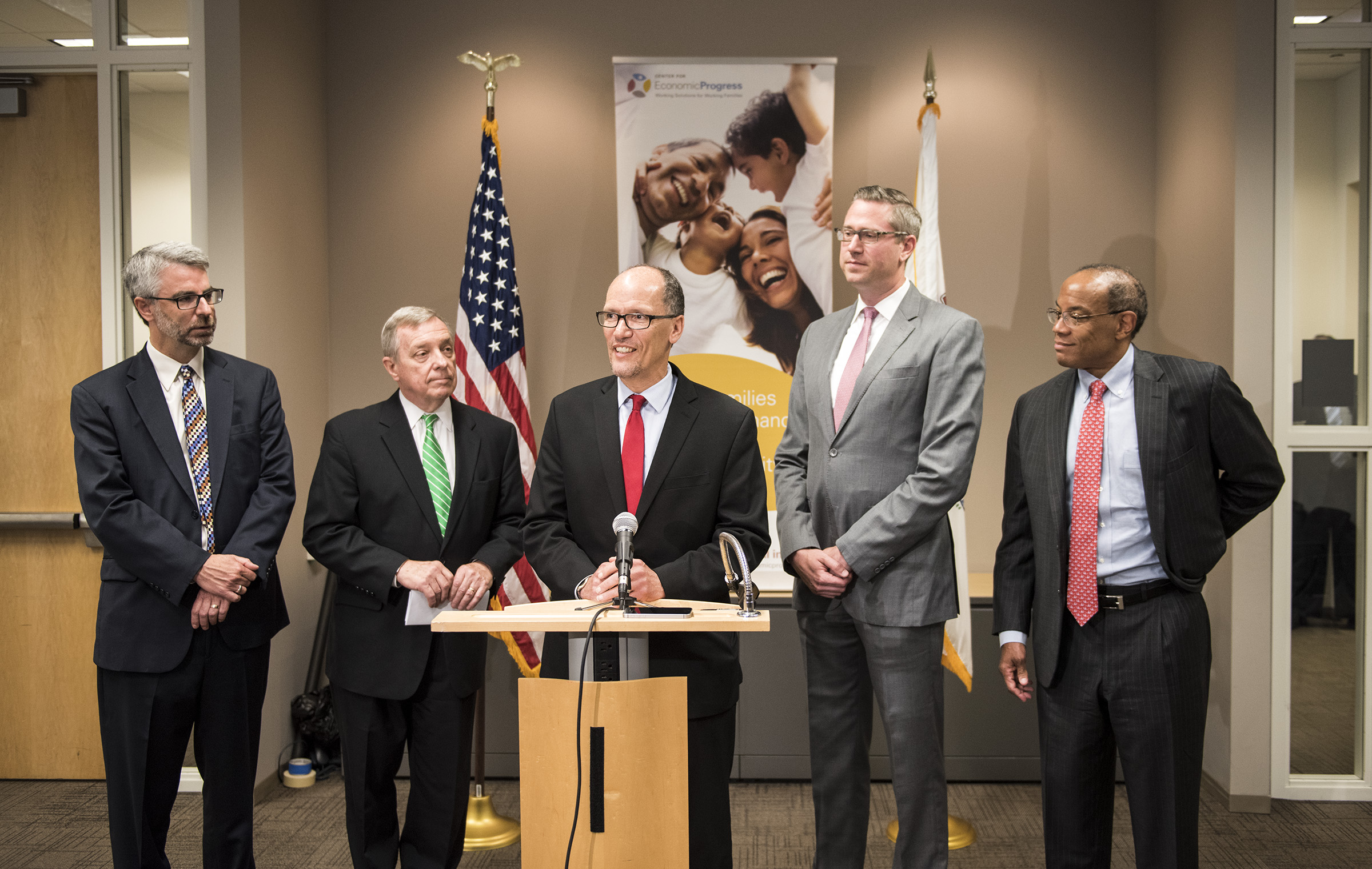 30 June 2016- Chicago, Illinois- Secretary of Labor Thomas Perez (center) speaks at a press conference at Chicago's Center for Economic Progress about the importance of financial literacy for Americans and the importance of workers receiving sound financial advice when investing funds for their future retirement. From left: David Marzahl, president and CEO Center for Economic Progress, Senator Dick Durbin of Illinois, Perez, Illinois State Treasurer Michael Frerichs and John Rogers, chairman and CEO of Ariel Investments. Official Department of Labor Photograph*** Photographs taken by the federal government are generally part of the public domain and may be used, copied and distributed without permission. Unless otherwise noted, photos posted here may be used without the prior permission of the U.S. Department of Labor. Such materials, however, may not be used in a manner that imply any official affiliation with or endorsement of your company, website or publication. Photo Credit: Department of Labor Scott M Allen